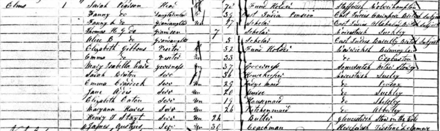 England Census of 1861 for The Elms, Abberley